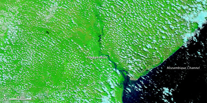 The Moderate Resolution Imaging Spectroradiometer (MODIS) on NASA’s Terra satellite captured this image of part of Sofala Province, around the city of Beira. The image use a combination of infrared and visible light to increase the contrast between water and land. Vegetation appears bright green. Clouds appear sky blue. Water appears navy blue.